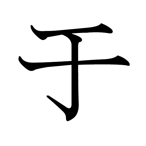 This image is a mix of (ホ) and (モ), and was made by me. Reference: This image in 'Iroha' and 'Aiueo'